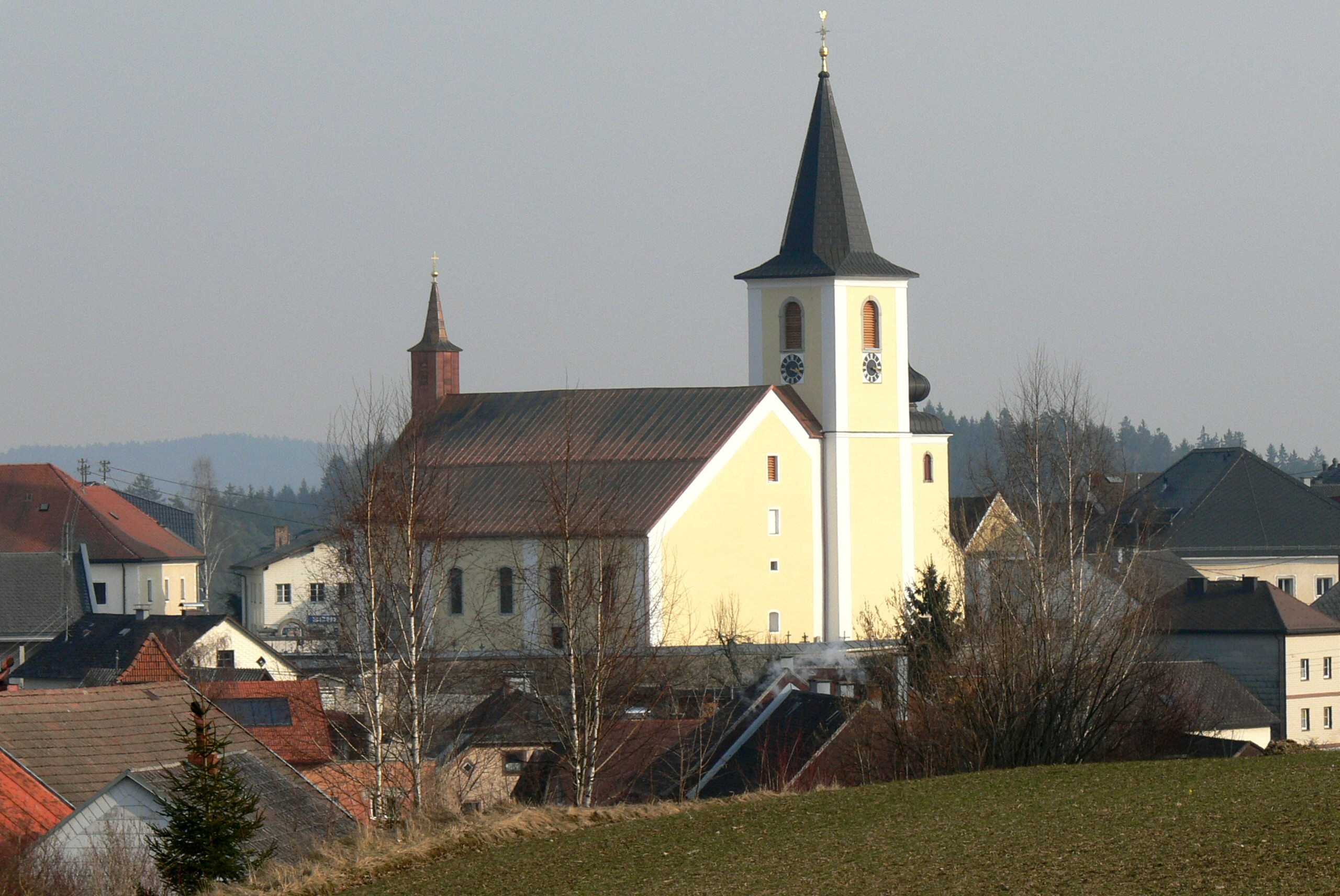 Sarleinsbach ( Upper Austria ). Saint Peter parish church.